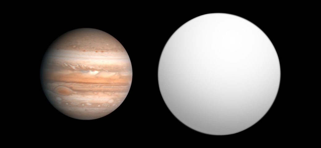 Comparison of best-fit size of the exoplanet HAT-P-6 b with the Solar System planet Jupiter, as reported in the Extrasolar Planets Encyclopaedia[1] as of 2010-10-03. ↑ Extrasolar Planets Encyclopaedia (2010-09-30). Retrieved on 2010-10-03.